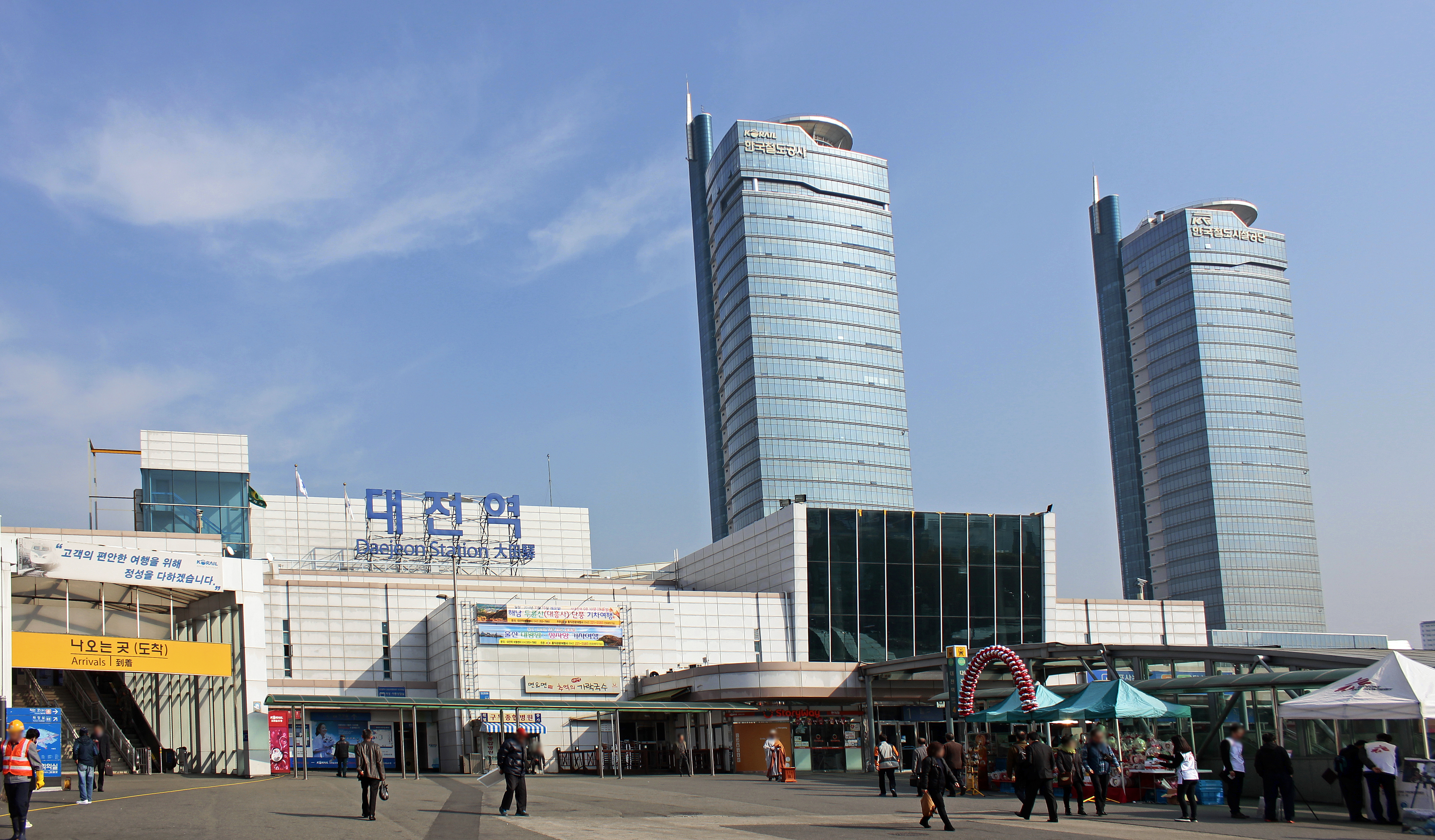 w/Korail Headquarters 11 Nov 2014